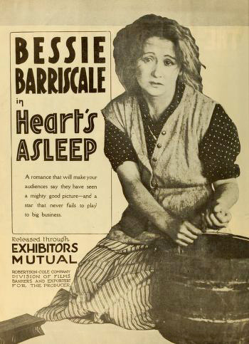 Advertisement in Moving Picture World, April 1919 for the American film Hearts Asleep (1919) with Bessie Barriscale.